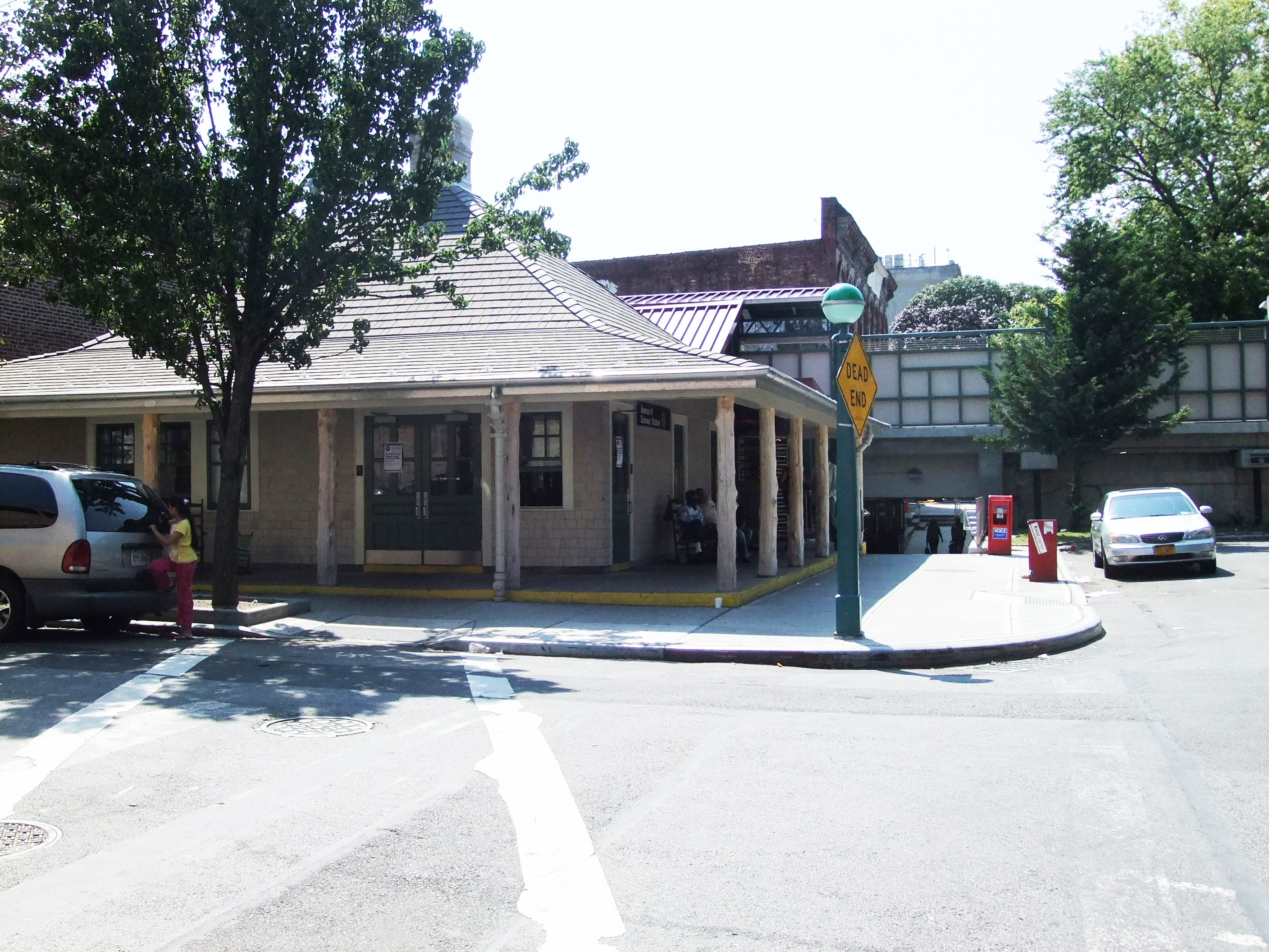 Ackerman Island station house (Brighton).